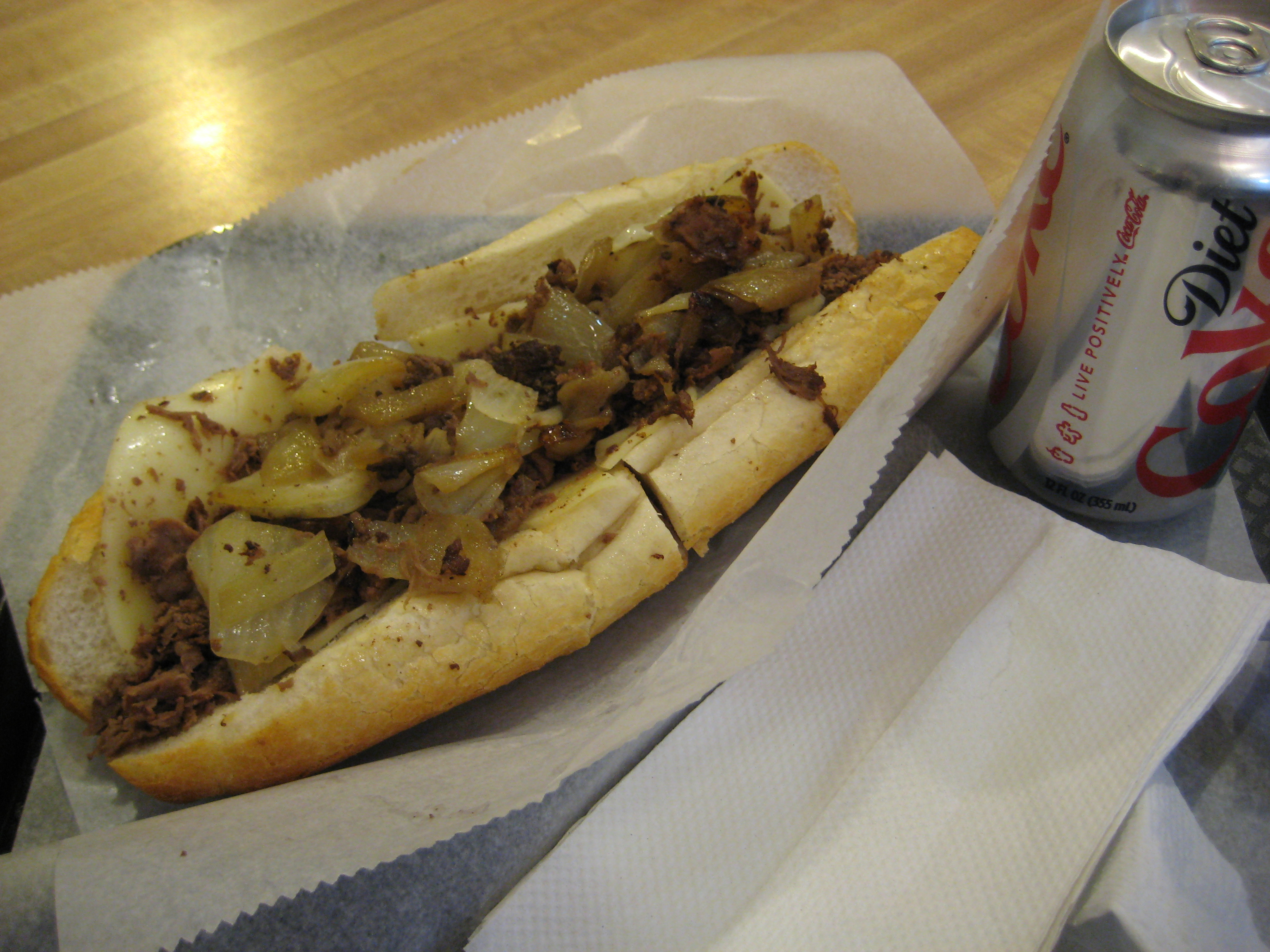 Philly Cheesesteak. Philly Cheesesteak with Provolone cheese and onions at Jim's Steak, Philadelphia.